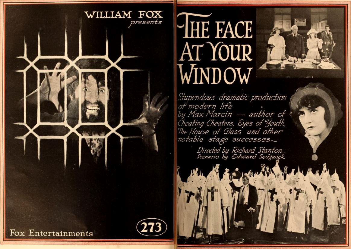 Advertisement for the American drama film The Face at Your Window (1920) with an unidentified actor at the window, Gina Relly, and Earl Metcalfe, from the insert after page 66 of the August 14, 1920 Exhibitors Herald.